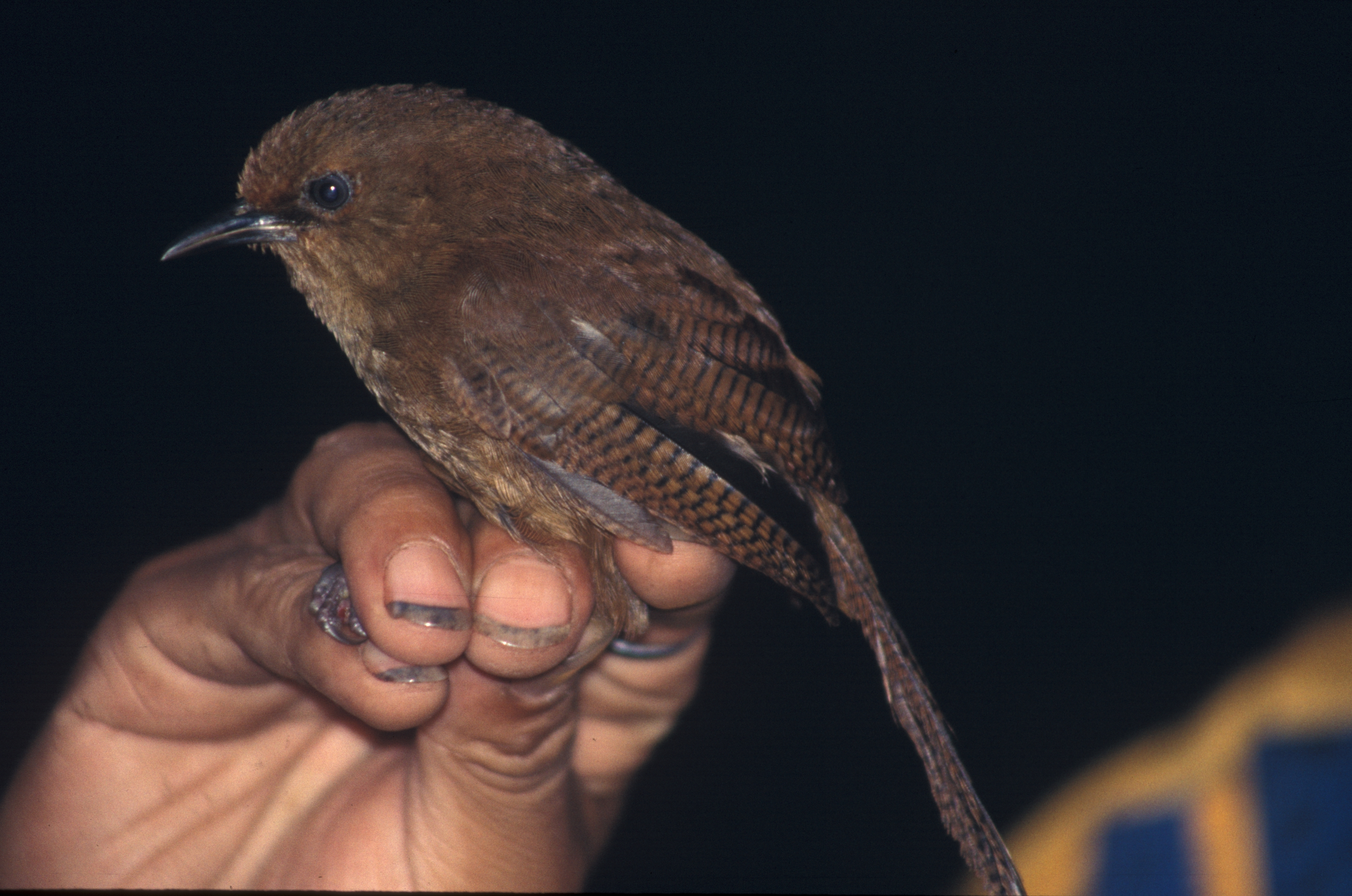 Sharpe's Wren (Cinnycerthia olivascens), aka Sepia-brown Wren. Photo from Cordillera del Cóndor in Ecuador.